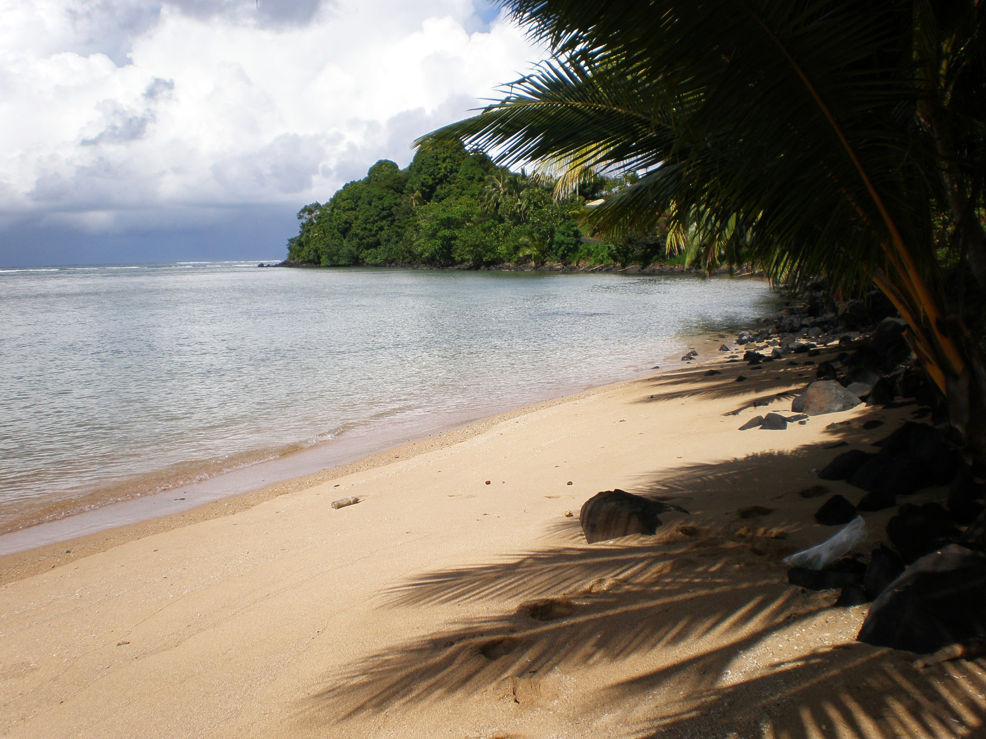 Samoa Beach, white sand, palms, island, taken on Upolu Island, Samoa